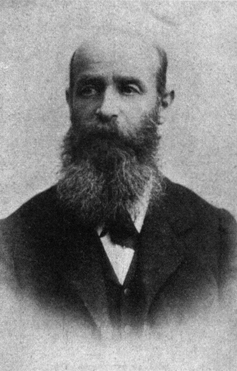 Ignaz Brüll (1846-1907), Austrian composer and pianist